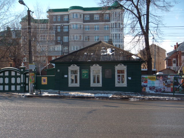 House museum of Saltykov-Shchedrin in Kirov, Kirov region.